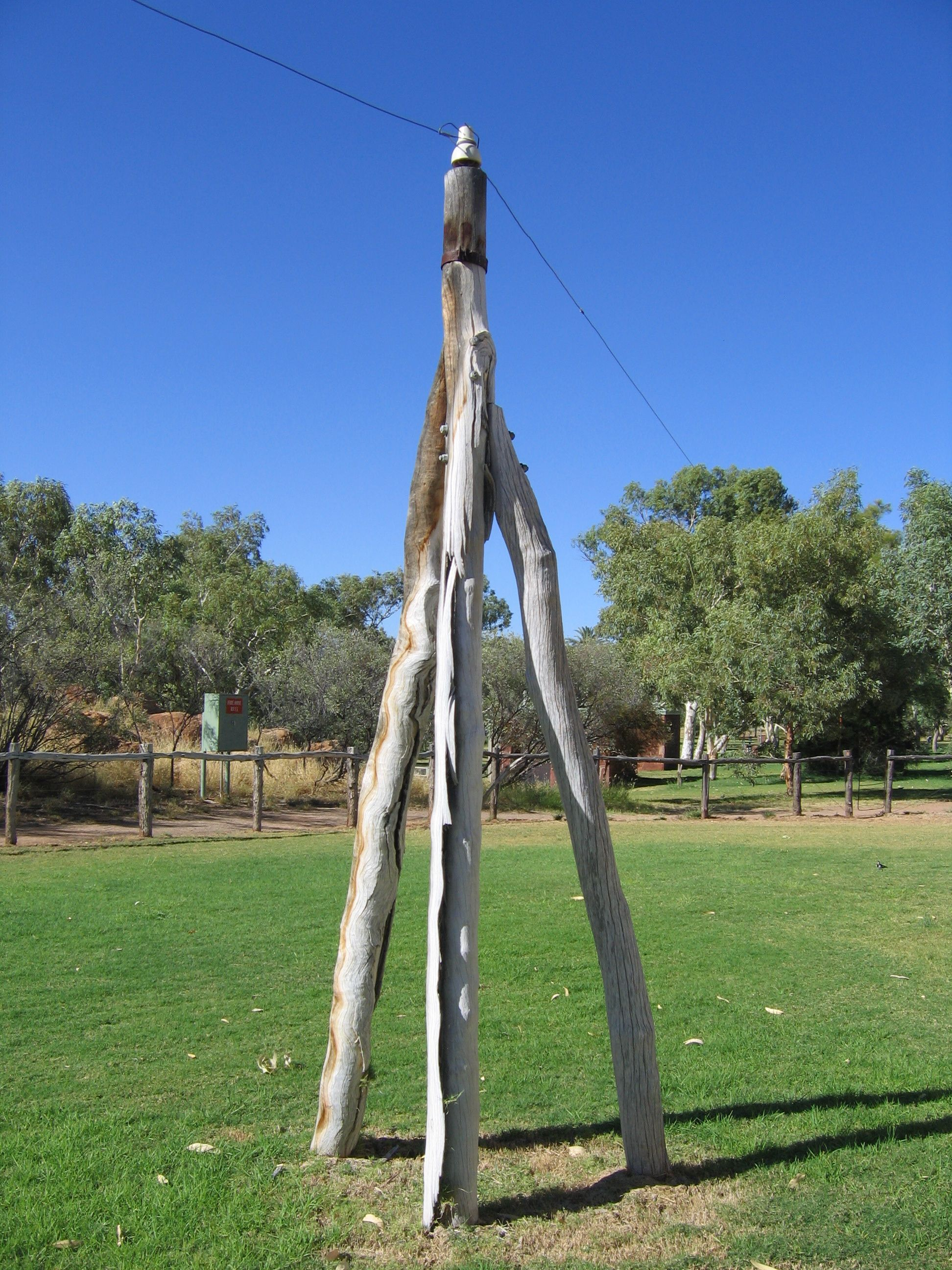 Alice Springs Telegraph Station, wooden Pole for one Line